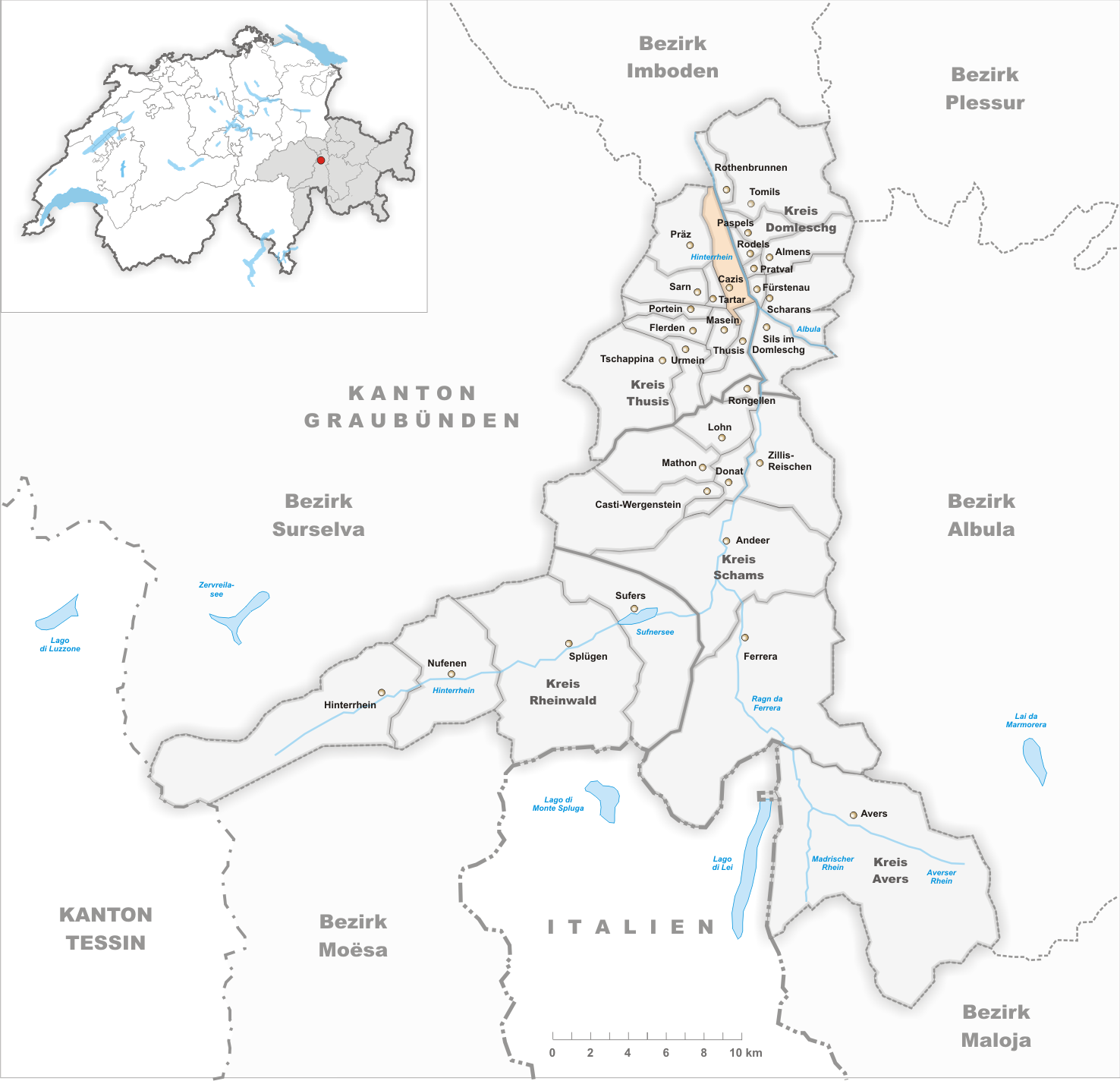 Municipality Cazis